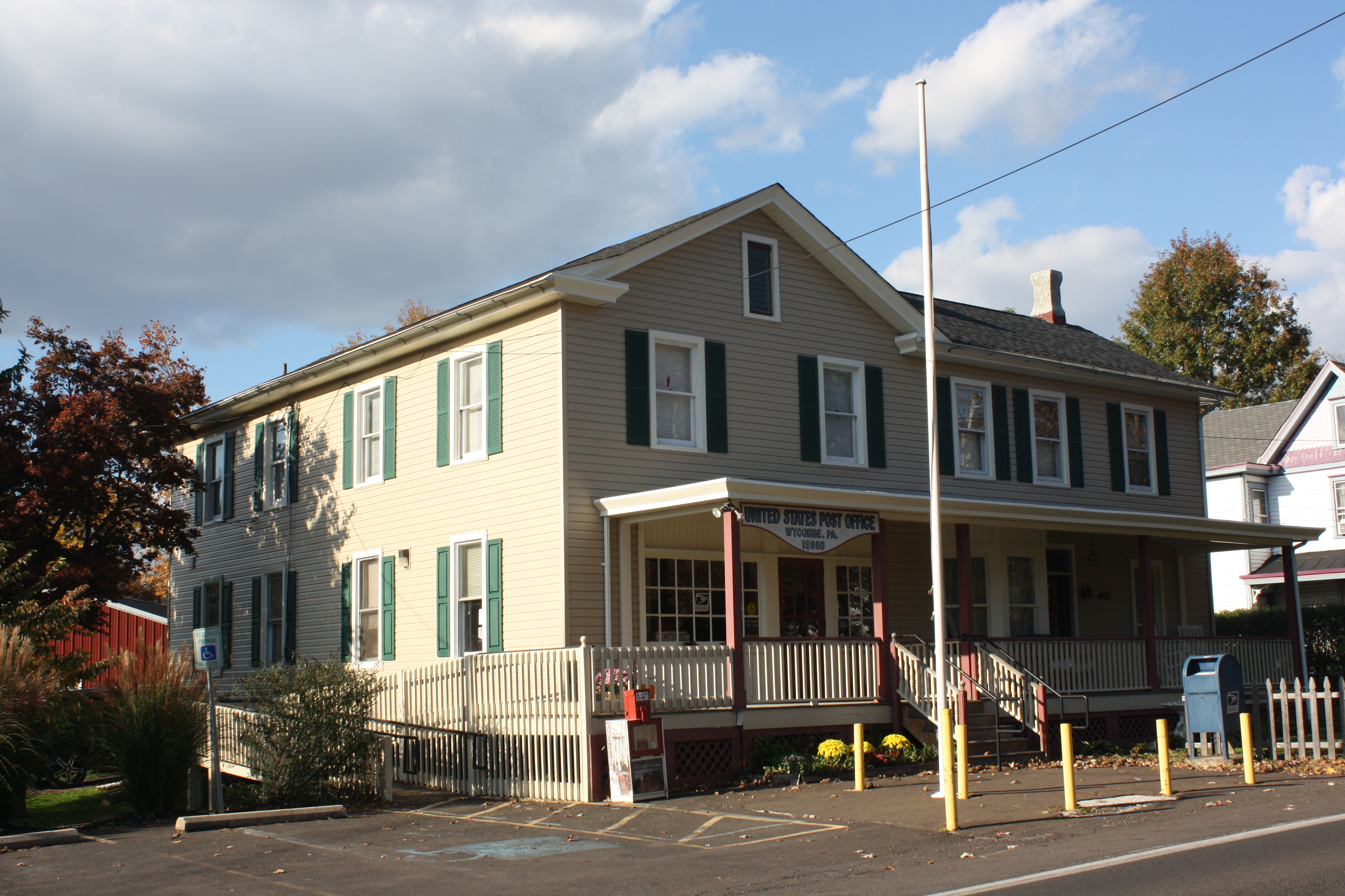 Wycombe Village Historic District, is a national historic district located in Wycombe, Buckingham Township and Wrightstown Township, Bucks County, Pennsylvania. Post Office. Object location40° 16′ 57″ N, 75° 01′ 07″ W